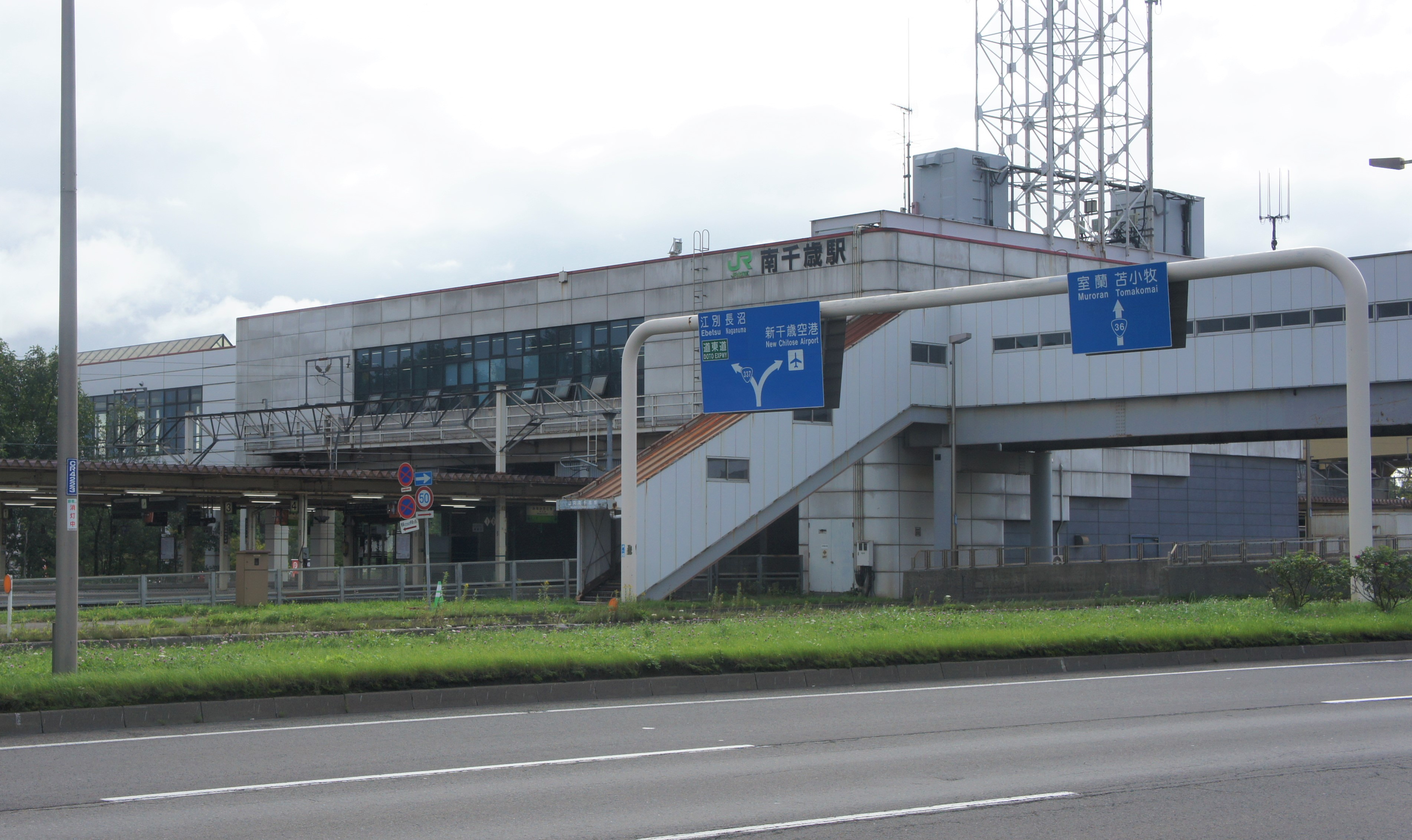 Station building of JR Chitose-Line/Sekisho-Line Minami-Chitose Station